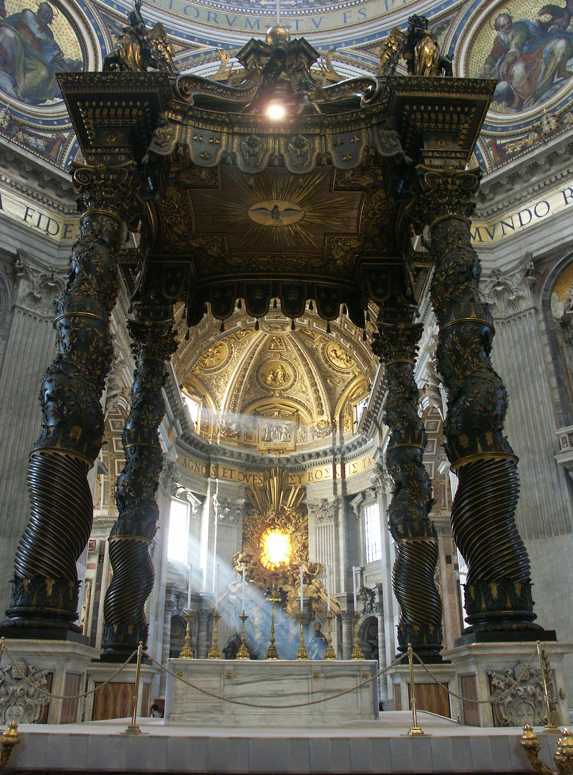 Baldacchino and Cathedra Petri (Bernini) of St. Peter's Basilica, Rome